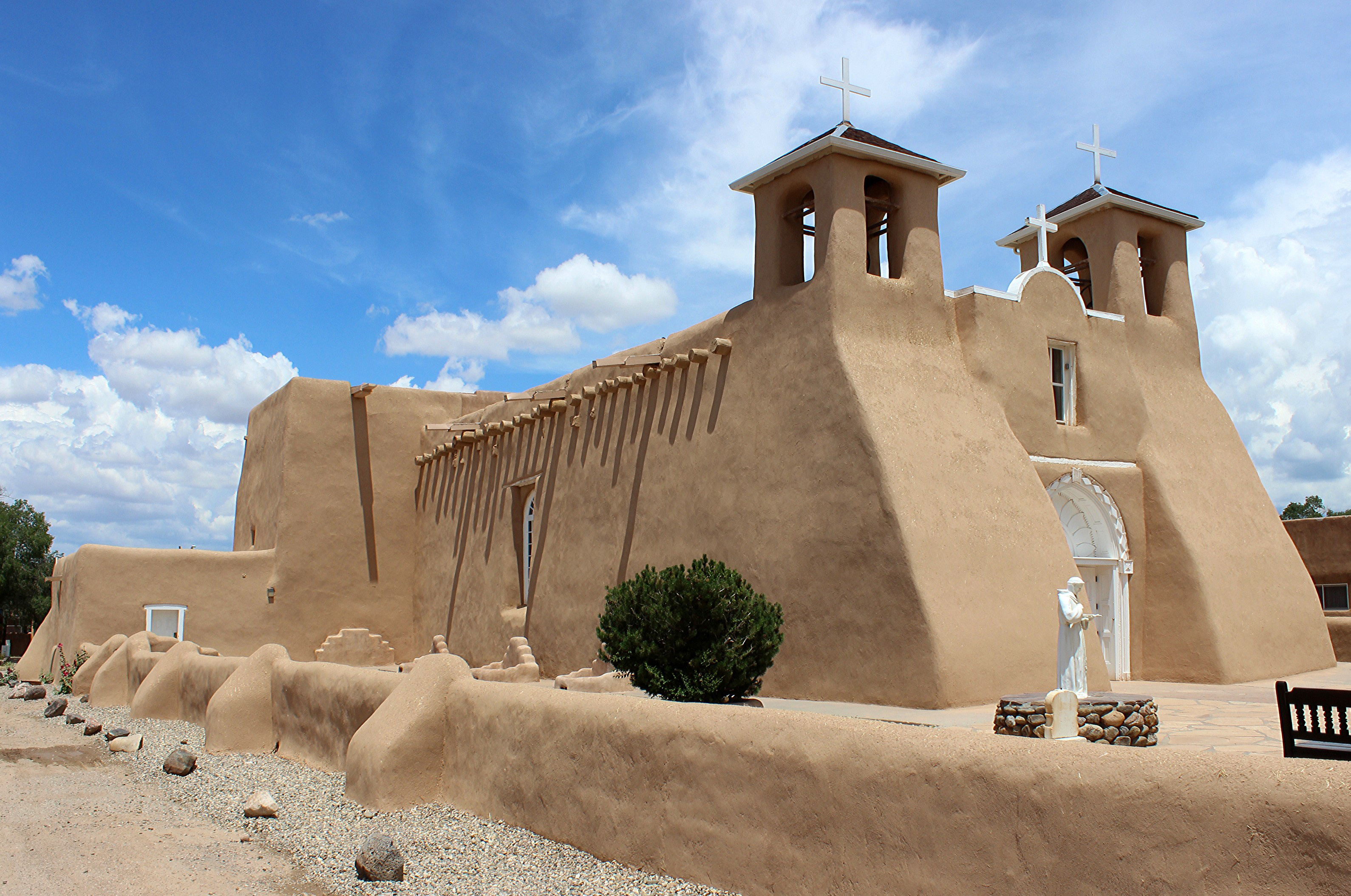 Exterior of the San Francisco de Asis Mission Church in Ranchos de Taos, New Mexico